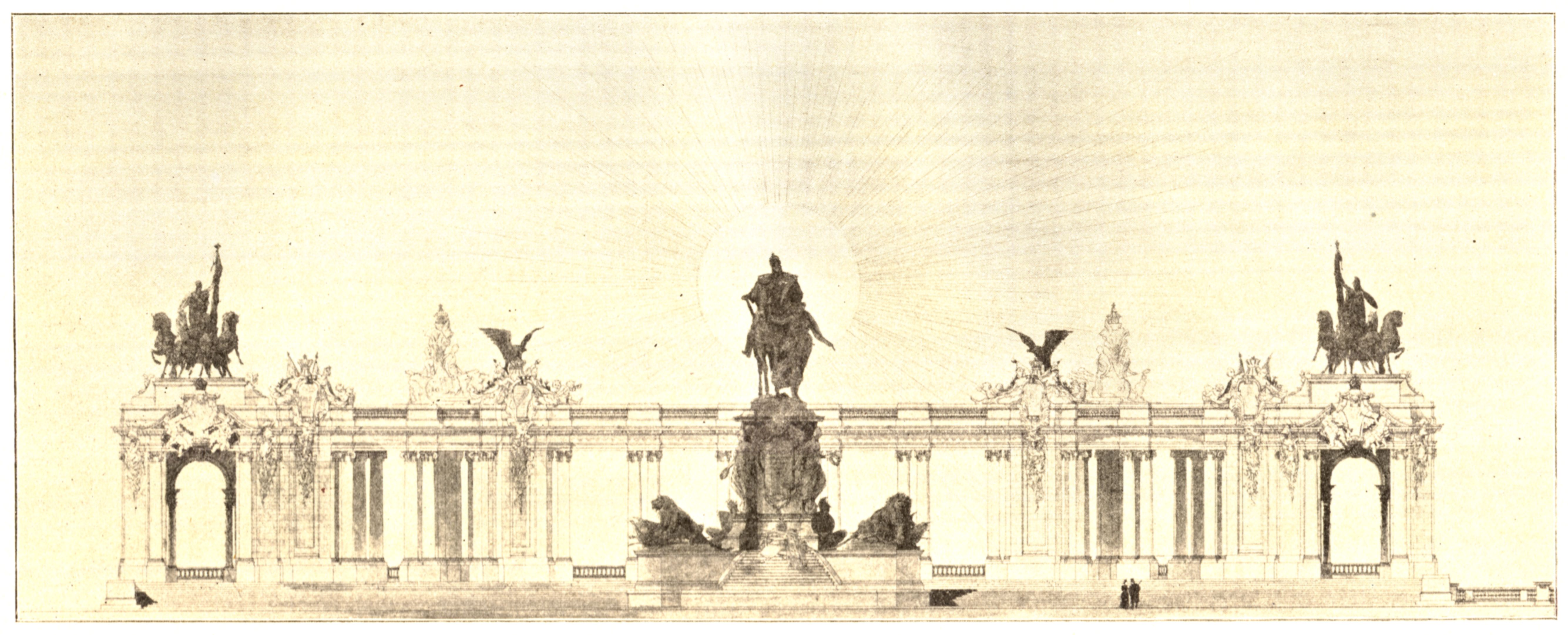 Berlin - Kaiser Wilhelm memorial, design, probably by Gustav Halmhuber